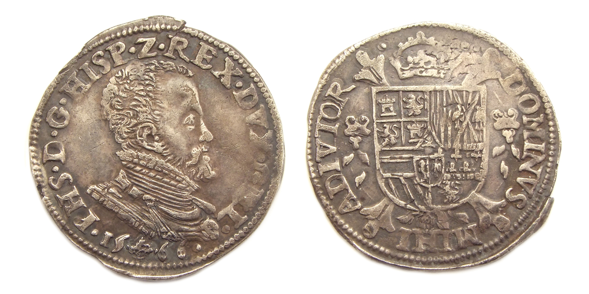 Low Countries, Guelders, Philip II, 1/5 Philipsdaalder, struck 1566. Obv: PHS.D.G.HISP.Z.REX.DVX.GEL / Bust of Philip II to right. Rev: DOMINVS MIHI ADIVTOR, crowned shield over Burgundian cross between two flints.